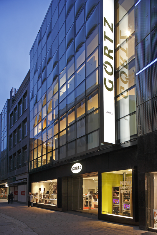 New Görtz Store in Hannover